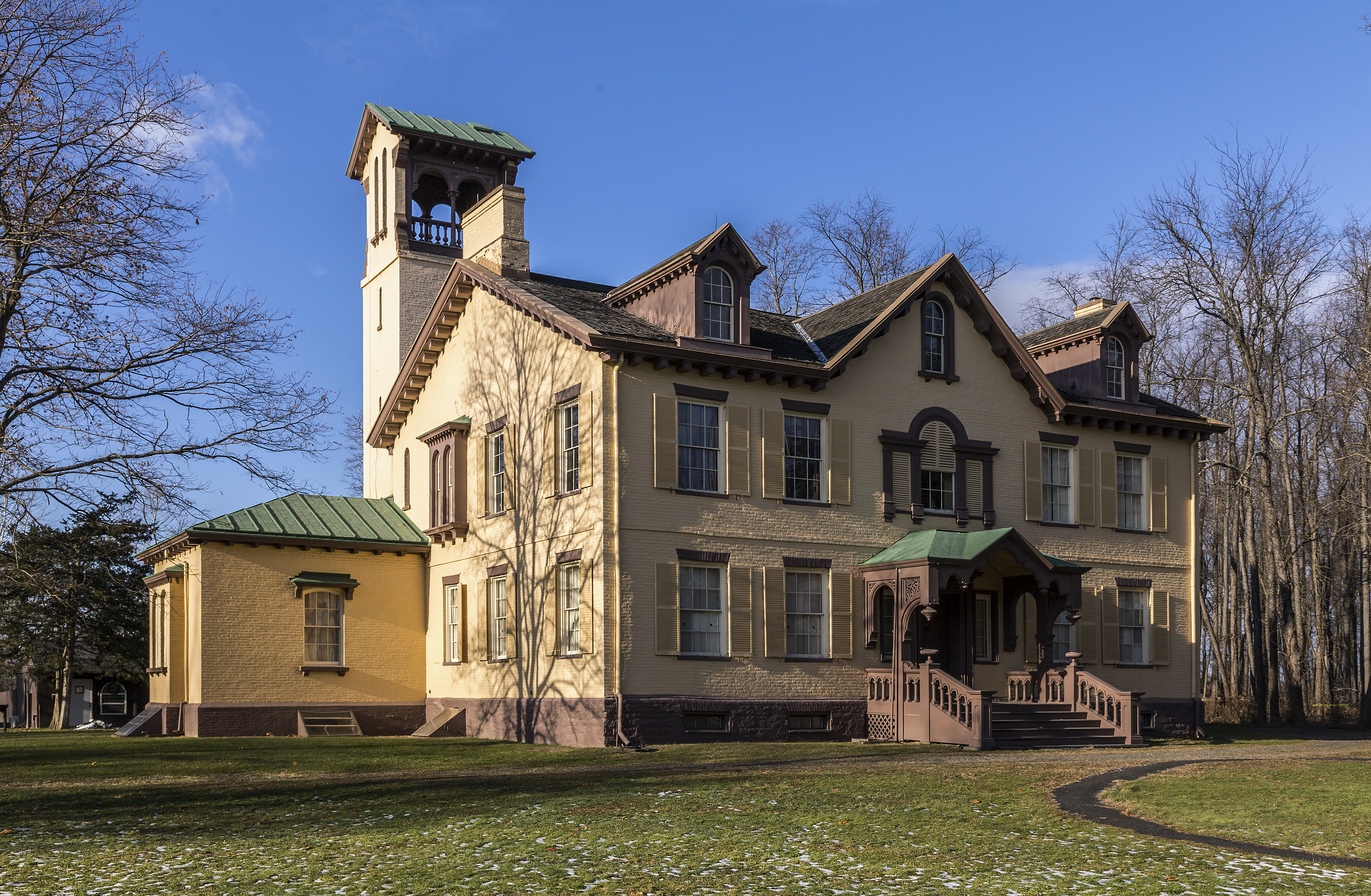 Lindenwald, Martin Van Buren National Historic Site, Kinderhook, New York, USA